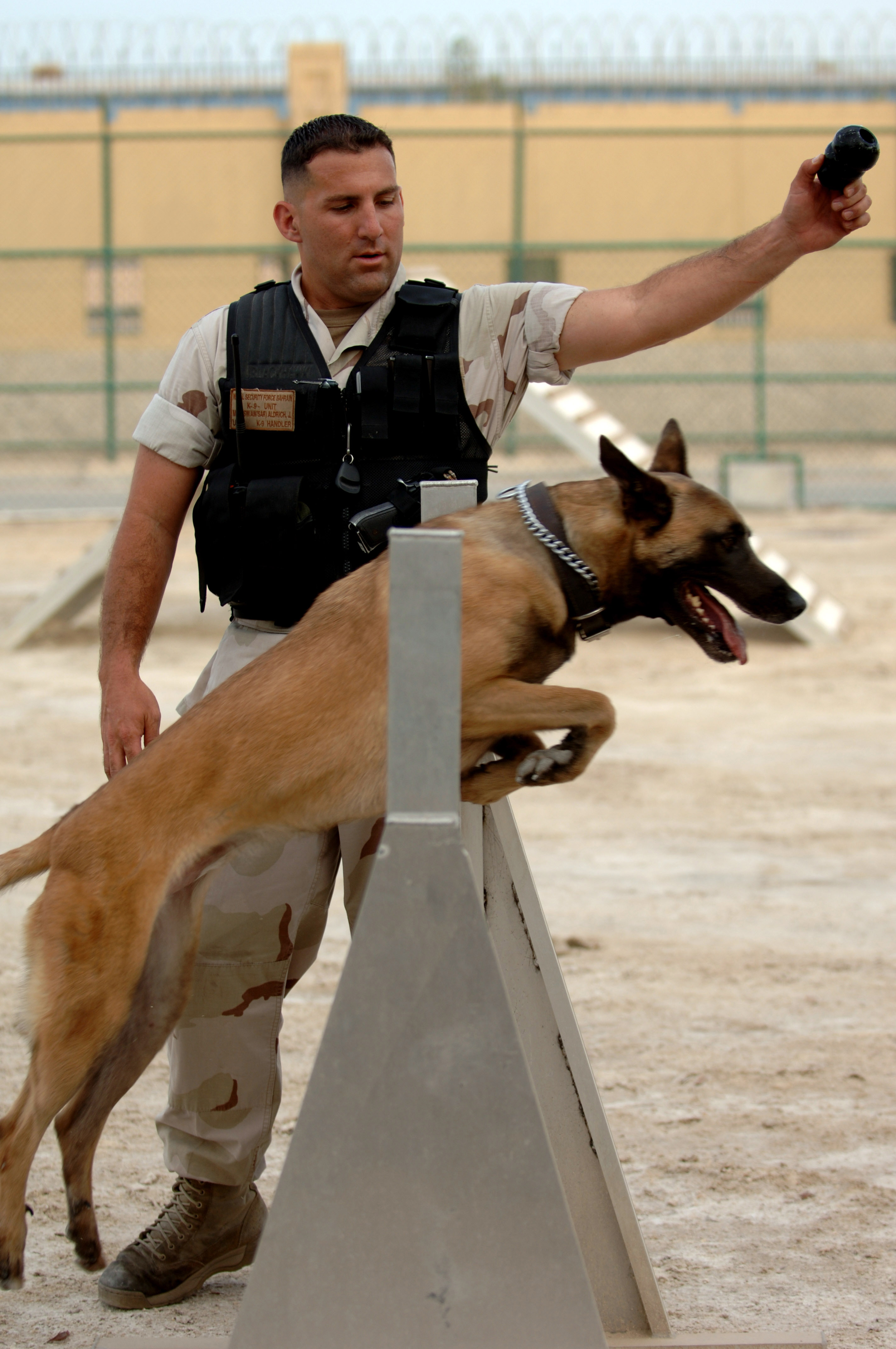 05/07/07 - U.S. Navy Master-at-Arms 2nd Class Jeremy Aldrich, attached to the K-9 Unit, Naval Security Force, and his military working dog Tyson, a four-year-old blue Belgium Malinois, take a break for some fun at an obstacle course in Bahrain May 7, 2007. The two have worked together in Bahrain for 18 months.